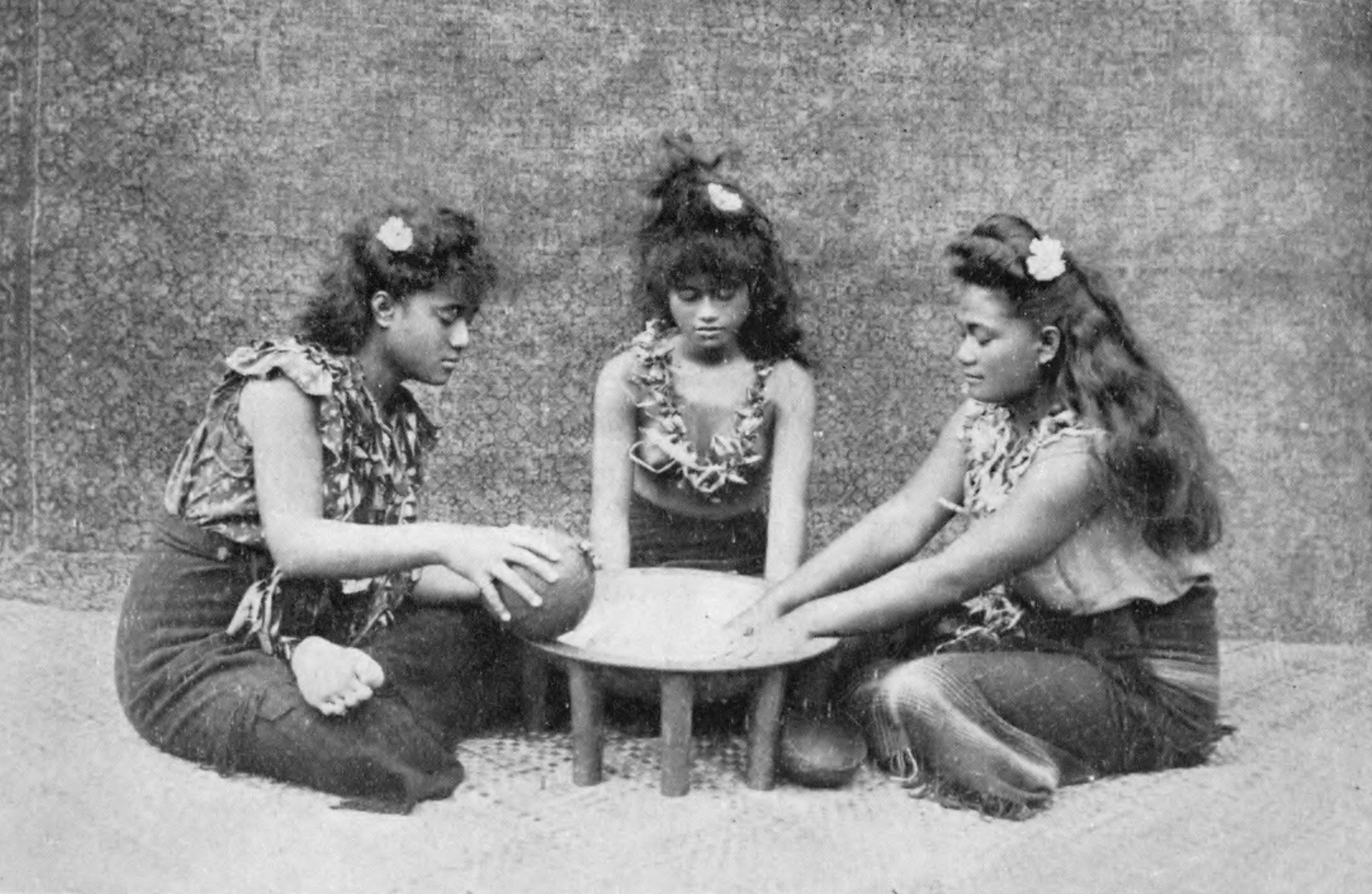 3 Samoan girls making ava 1909